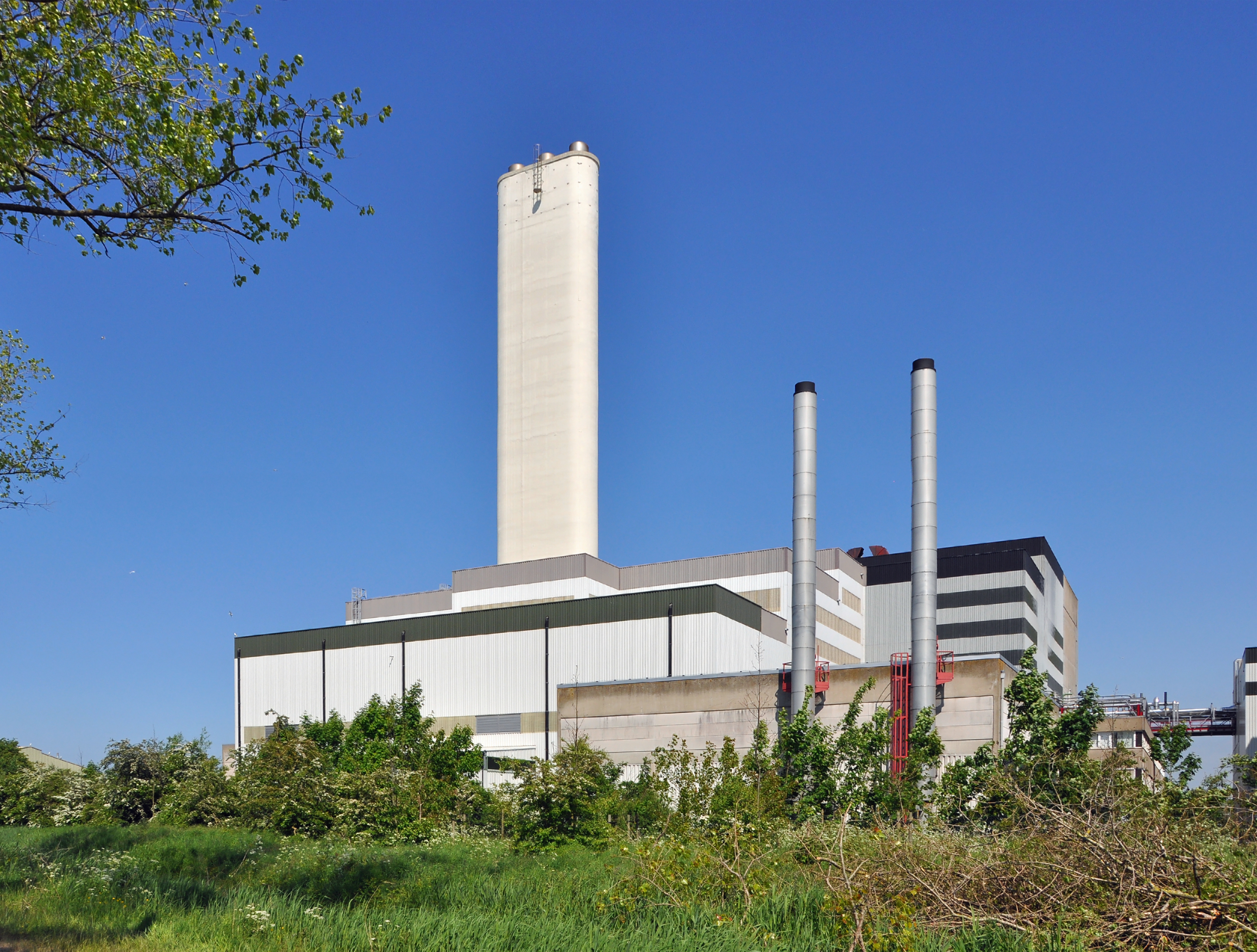 Bruges (Belgium): incineration plant